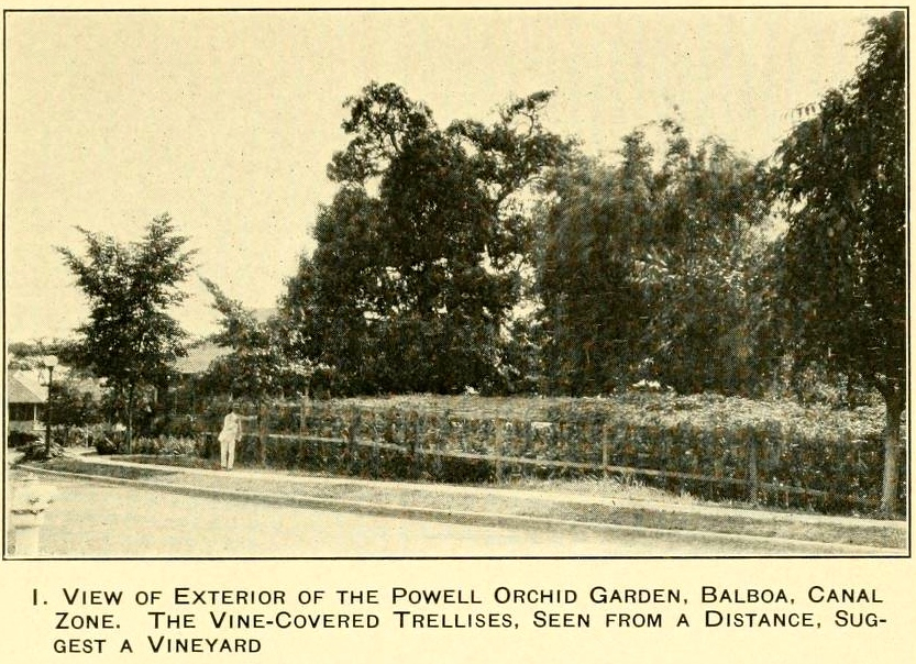 Exterior view of garden with Charles Wesley Powell shown for scale